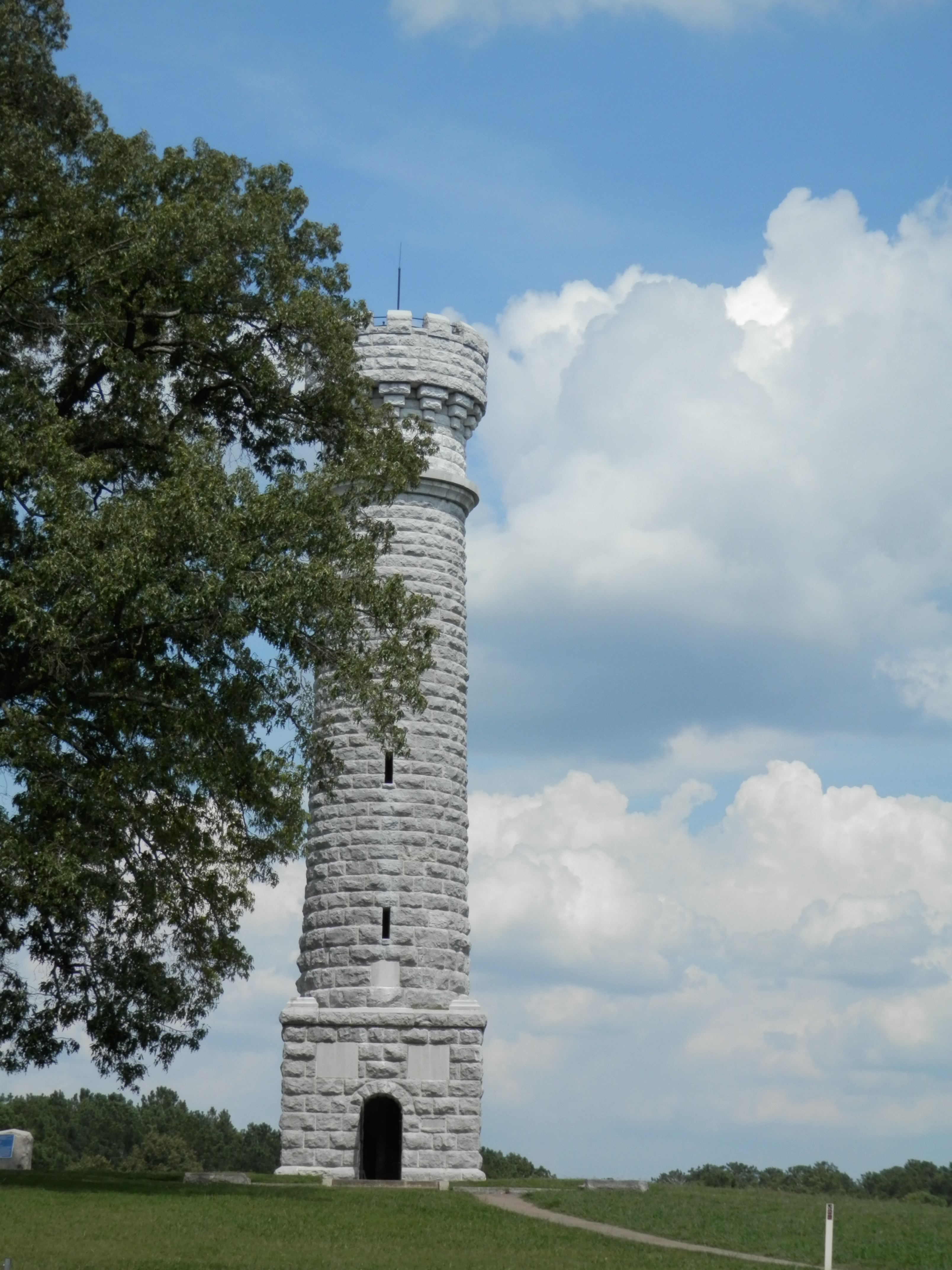 Wilder Tower at Chattanooga/ Chickamauga Battlefield